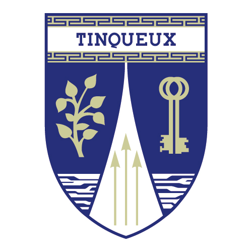 Coat of arms of Tinqueux, France